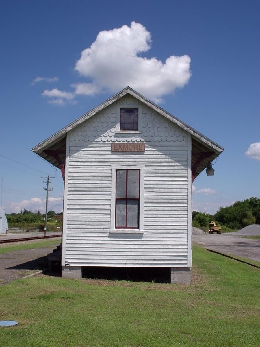 The Belle Haven depot was moved to Exmore, Virginia, after the Exmore station was destroyed by fire. The photo is by William J. Grimes. Iain 06:04, 6 August 2007 (UTC)